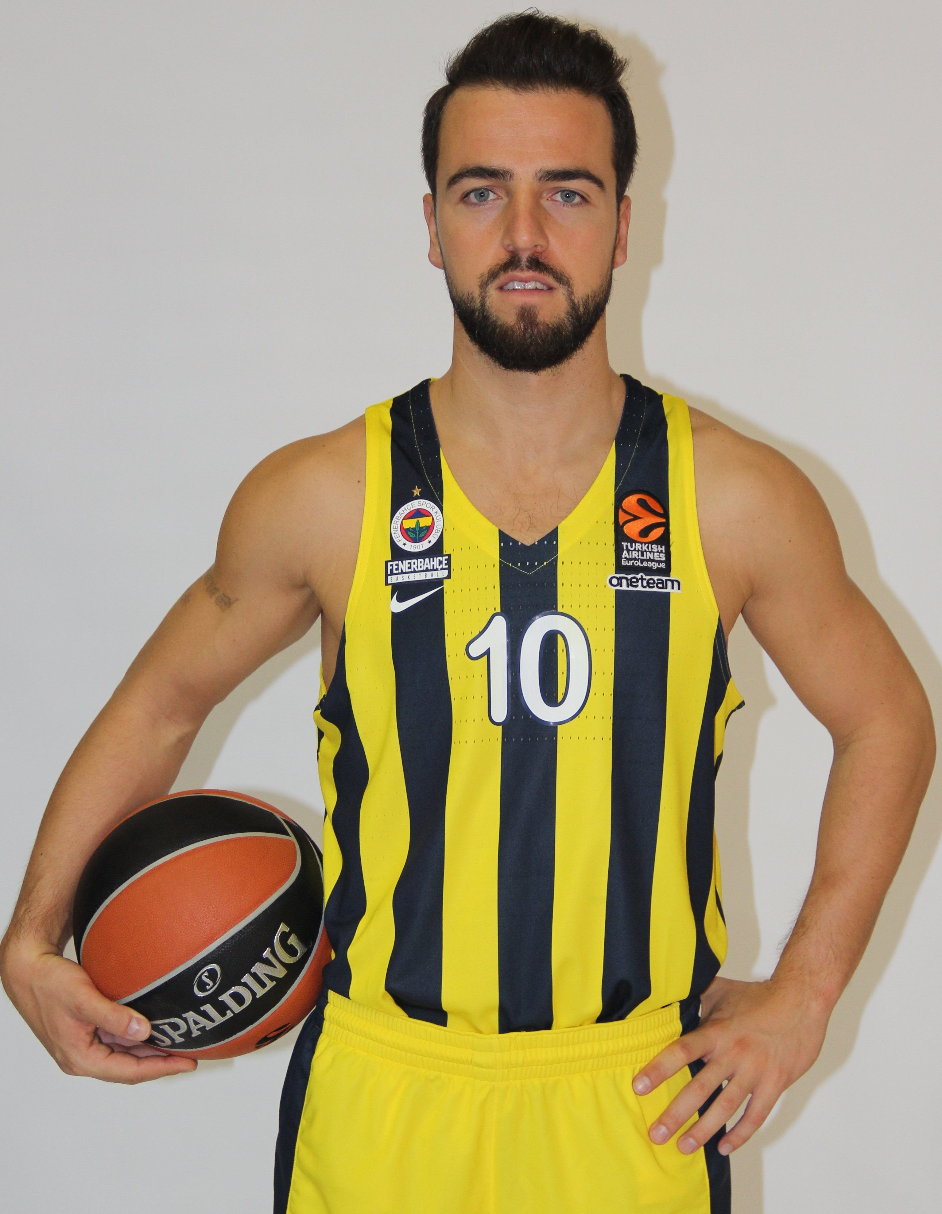 Melih Mahmutoğlu Fenerbahçe Basketball Media Day 20180925